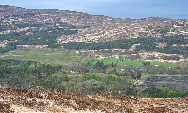 Kinloch village, Rùm, Scotland from the south, at low tide. The castle is visible at centre.